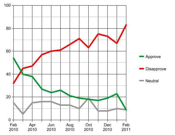 Approval ratings of the Croatian government.